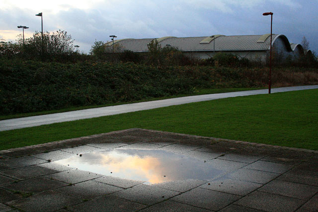 The Riverside Path With a cloud-reflecting puddle.